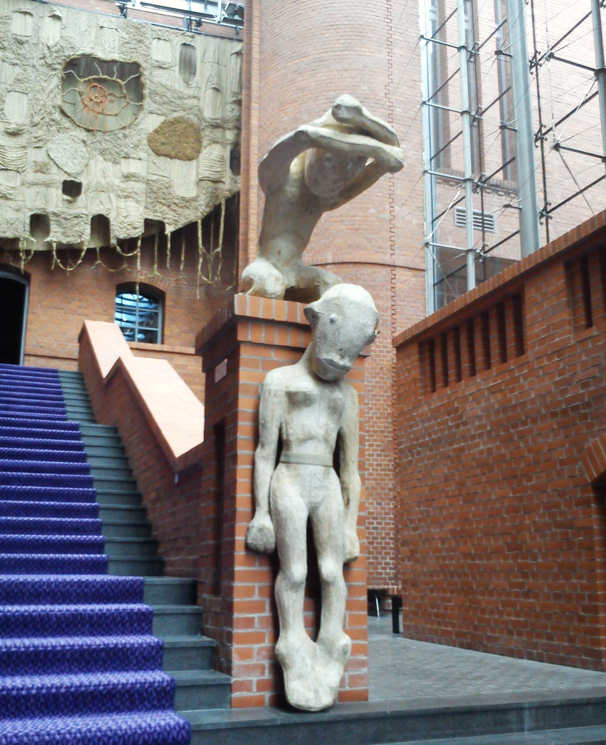 Blow Up Hall, Poznan, Stary Browar, wall carpet of Piotr Uklański and sculpture of Sylwester Ambroziak